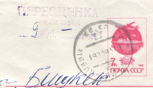 Provisional stamp of Mailuu-Suu, Kyrgyzstan, 1994.